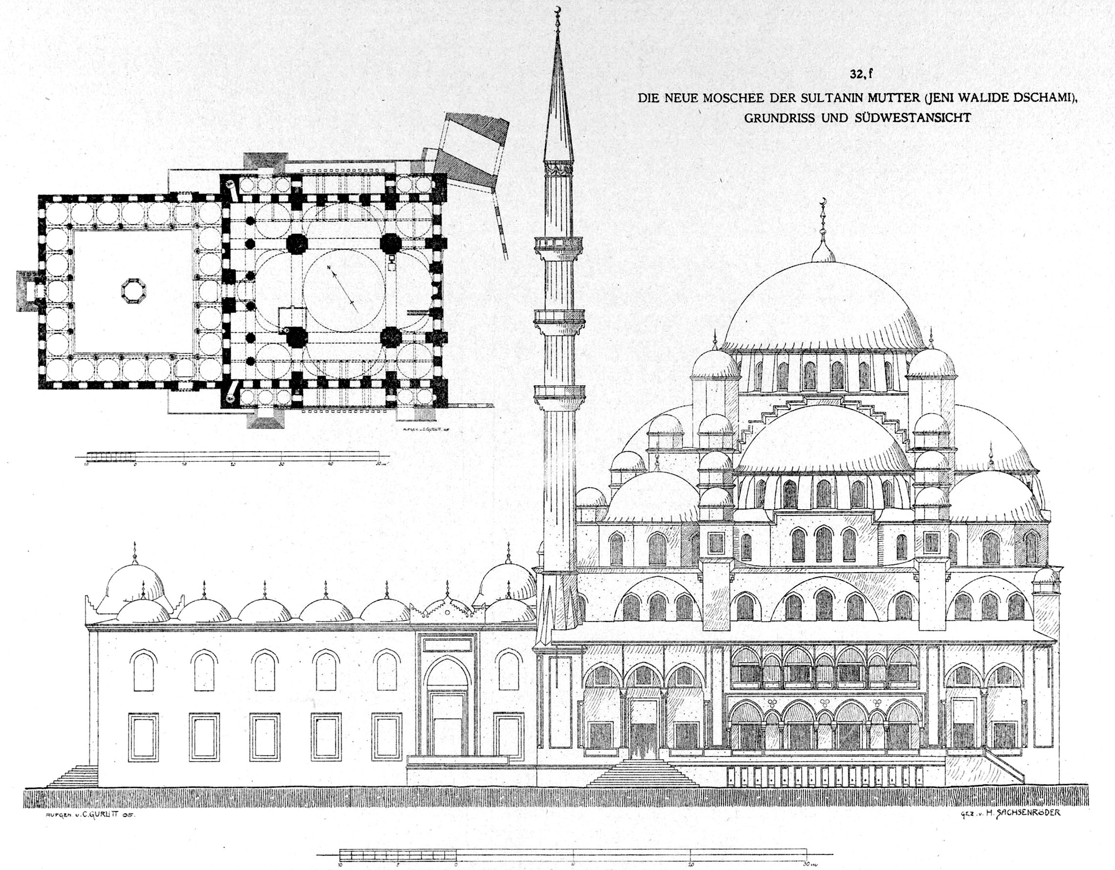 Elevation and plan of the New Mosque (Yeni Camii) situated at the southern end of the Galata Bridge in the Eminönü neighbourhood of Istanbul